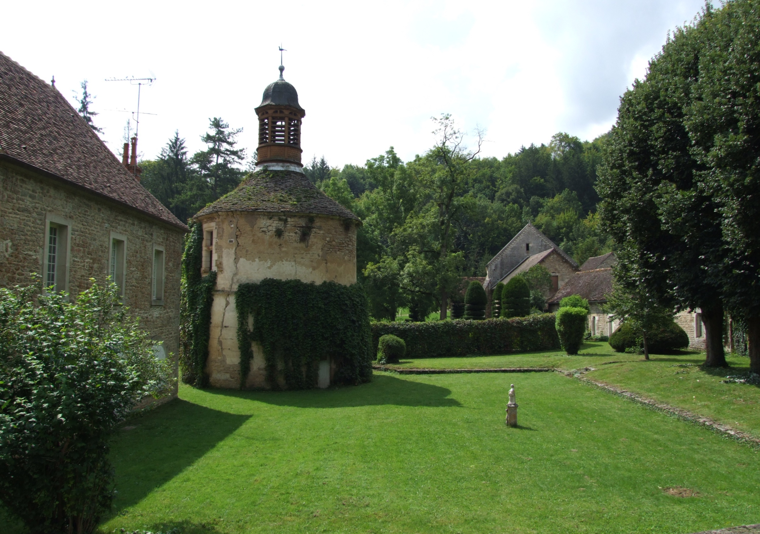 La Bussière-sur-Ouche, Bourgogne, France